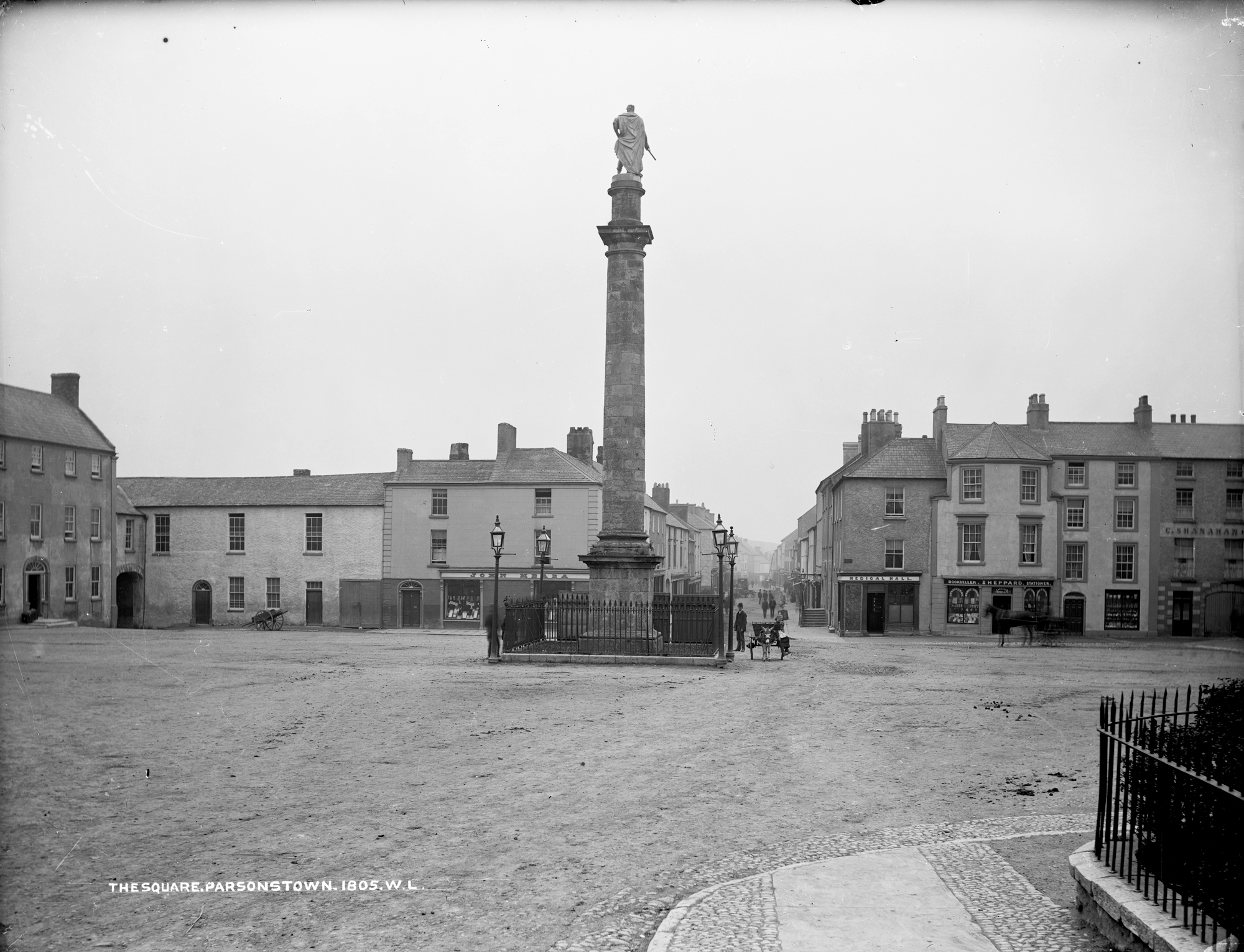 From an obelisk to a column, from Drogheda to Parsonstown, from the Orange Order to the Liberator "Butcher" Cumberland. Originally we thought perhaps that the statue adorning this column in Birr (previously called Parsonstown) was that of the Liberator, Daniel O'Connell. However, the community has confirmed that it was a statue (now gone) of [Prince%20William,%20Duke%20of%20Cumberland "Butcher" Cumberland, Prince William Augustus]. From Pigot's 1824 Directory: In the middle of the town is a stone column of the Doric order, with a shaft about 25 feet high, and surmounted with a pedestrian statue of the Duke of Cumberland in a Roman habit, cast in lead, and painted of a stone colour; it was erected in 1747 There's a fairly comprehensive report on the history, development and preservation of the column on the Offaly Council site. Thanks to everyone for today's contributions - especially [/photos/91549360@N03/ O Mac], [/photos/66311327@N05/ B-59] and [/photos/lizinitaly/ Wendy:] for quickly providing confirmation of location, subject and some local context... Photographer: Robert French Collection: Lawrence Photograph Collection Date: c.1880-1900 NLI Ref: L_ROY_01805 You can also view this image, and many thousands of others, on the NLI’s catalogue at